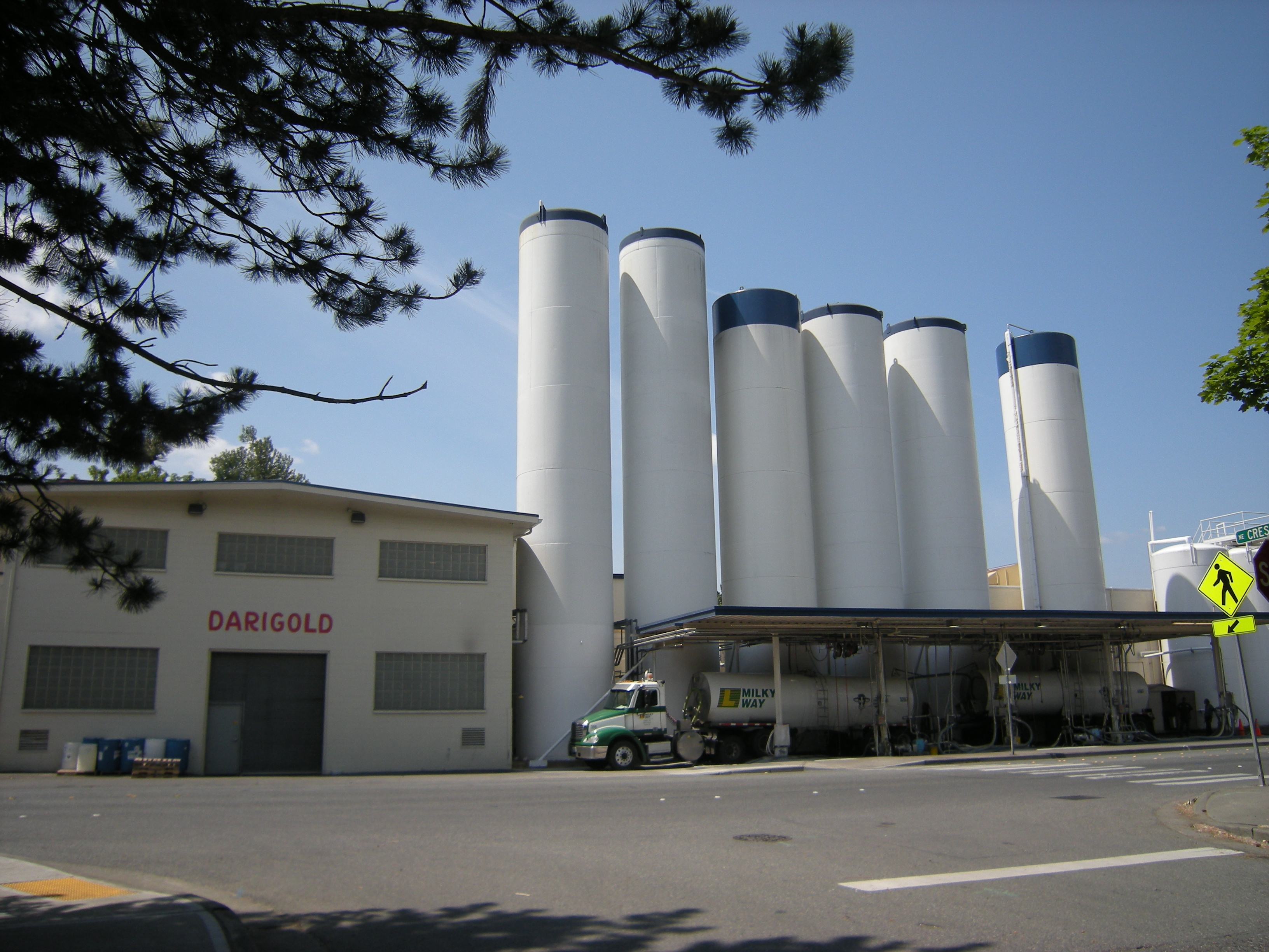 Darigold dairy, Issaquah, Washington.